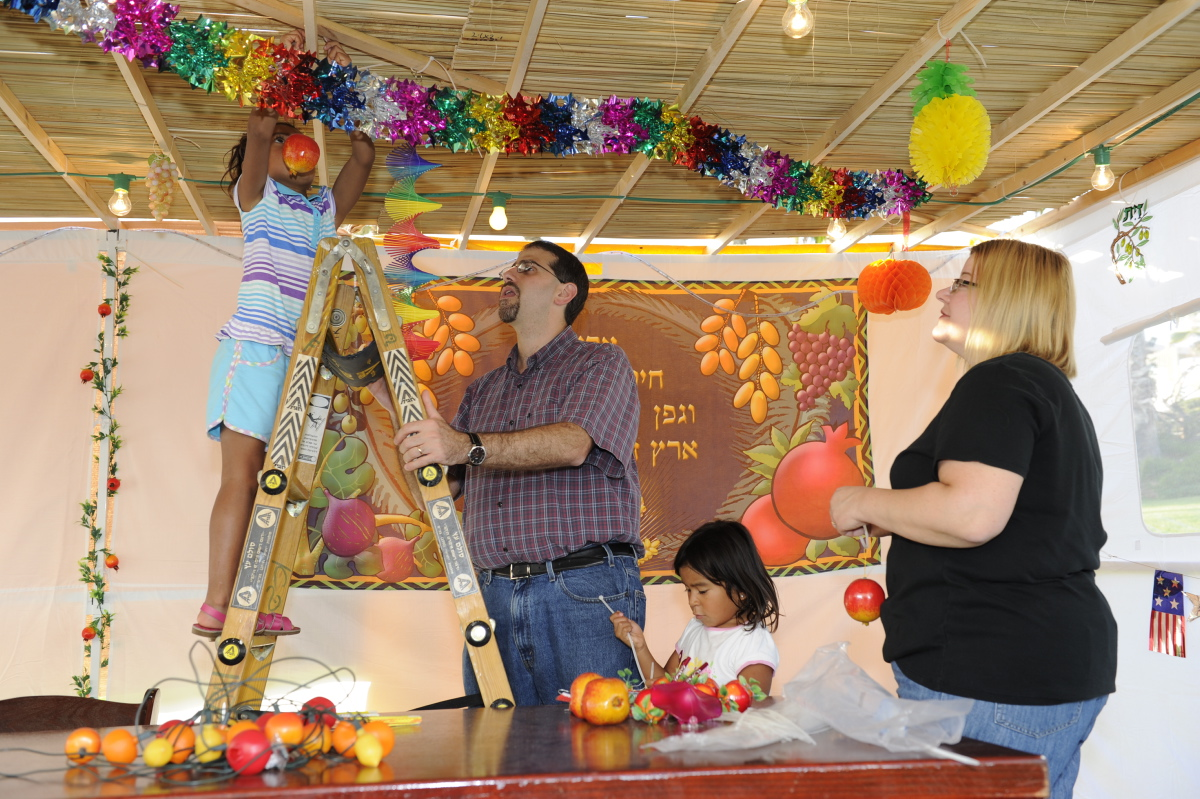 U.S. Ambassador Dan Shapiro and his daughter Merav on a shopping tour for the four species and decorations for their Sukka in Rabin Square, Tel Aviv. Afterwards, they decorated their Sukka at home with the help of the Ambassador's wife, Julie, and their youngest daughter, Shira.